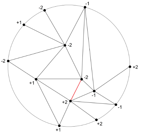 Example, in 2 dimensions, of Tucker's lemma.